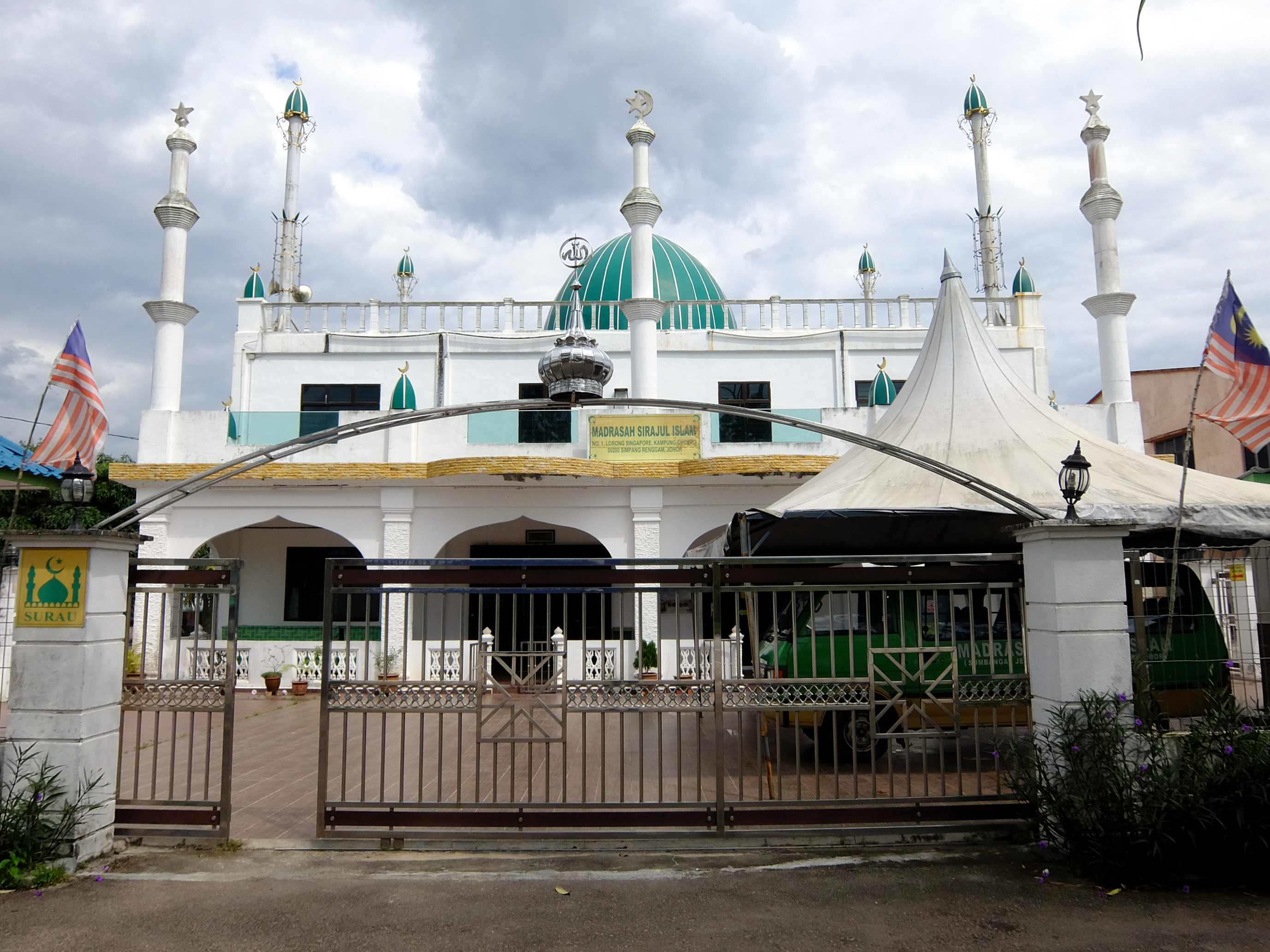 Sirajul Islam Madrasa, Chokro Village, Simpang Renggam, Kluang, Johor, Malaysia